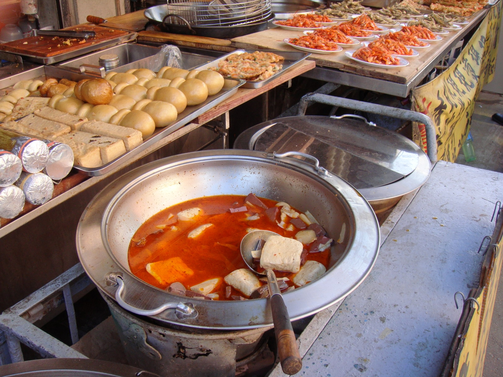 Stinky dofu offered in a spicy sauce in Fusin, a holiday resort in Taiwan